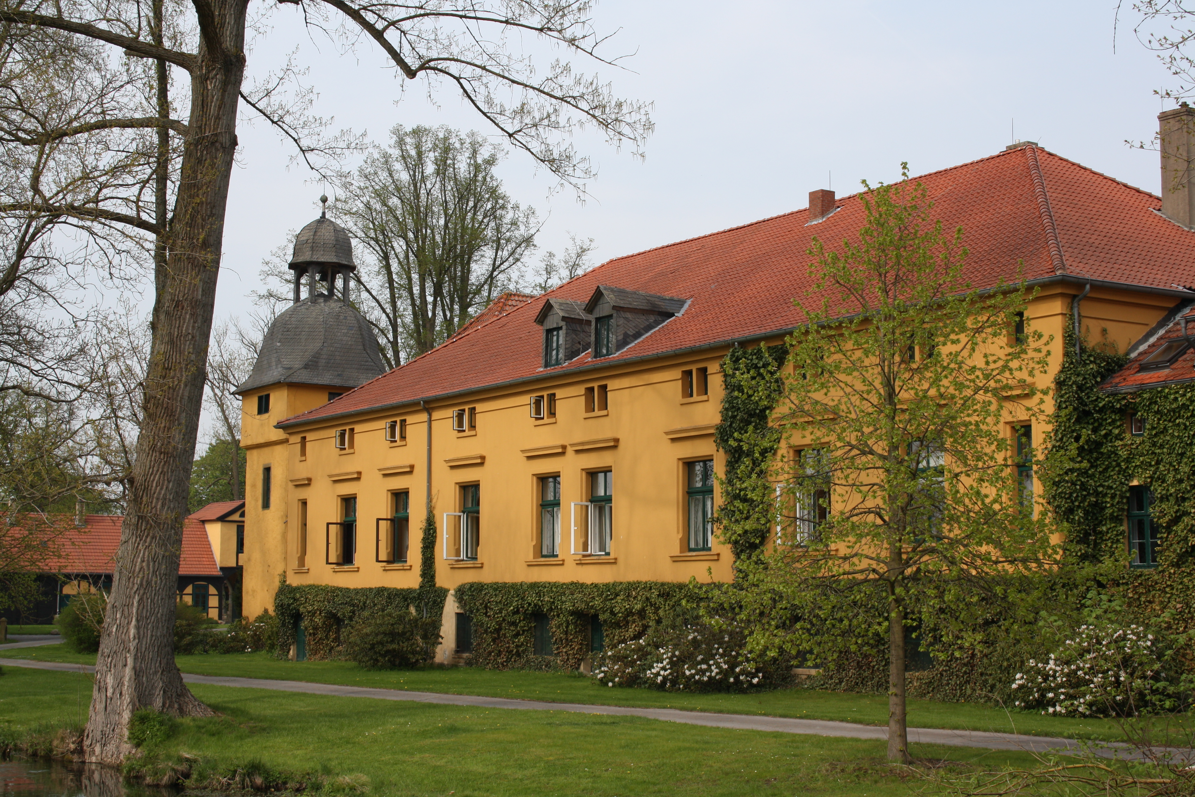 Böckel Castle in Rödinghausen, District of Herford, North Rhine-Westphalia, Germany.